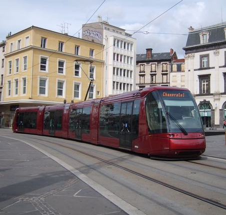 Clermont-Ferrand Tram on tires crossing the Jaude Square